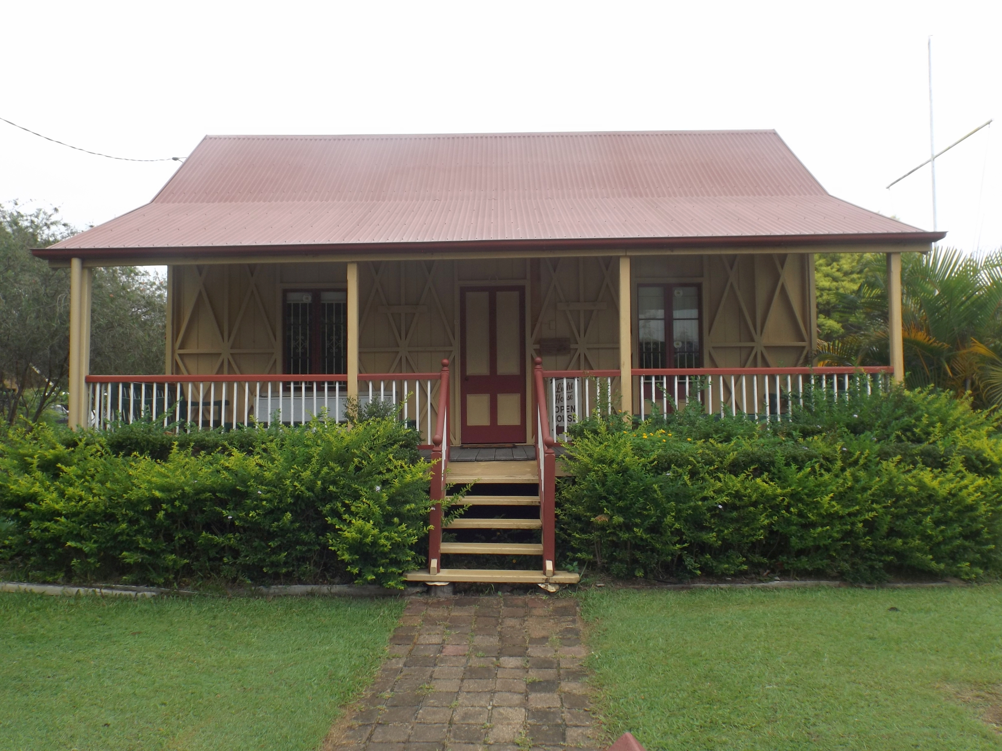 Photo of the Schmidt Farmhouse at Worongary, City of Gold Coast, Queensland, Australia.